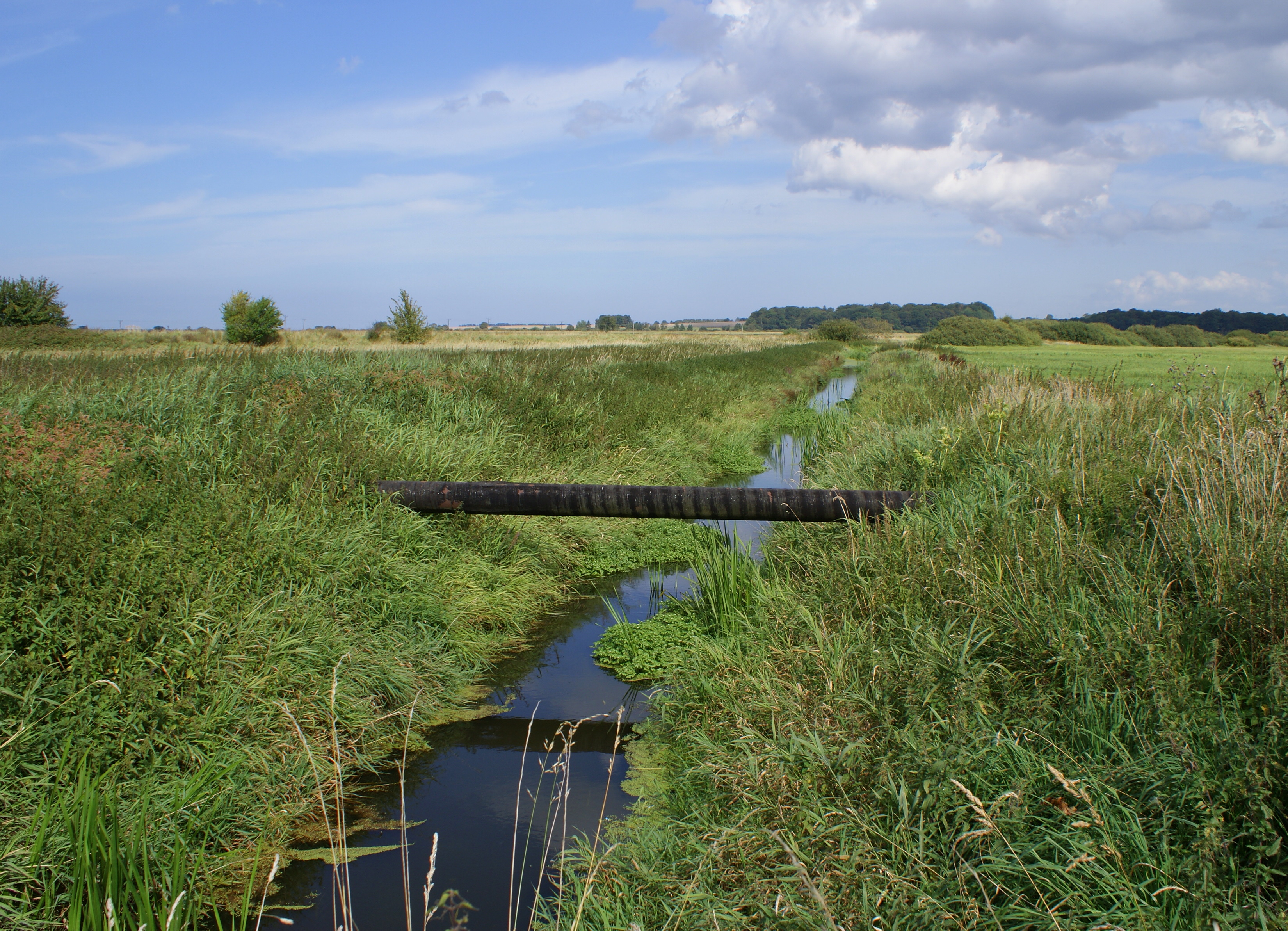 Stara Rega stream, Poland